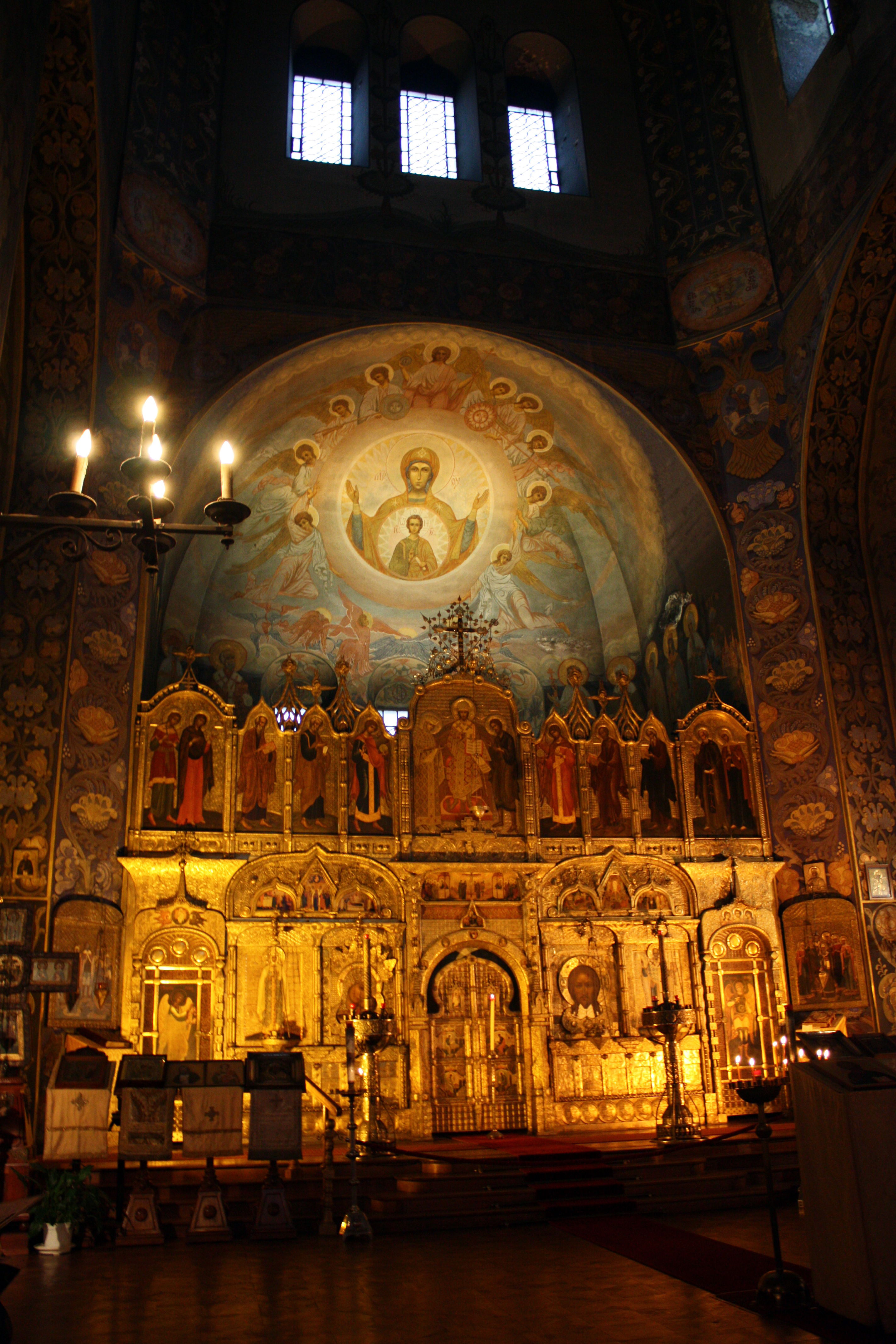 orthodox cathedral of Saint Nicholas in Nice, France